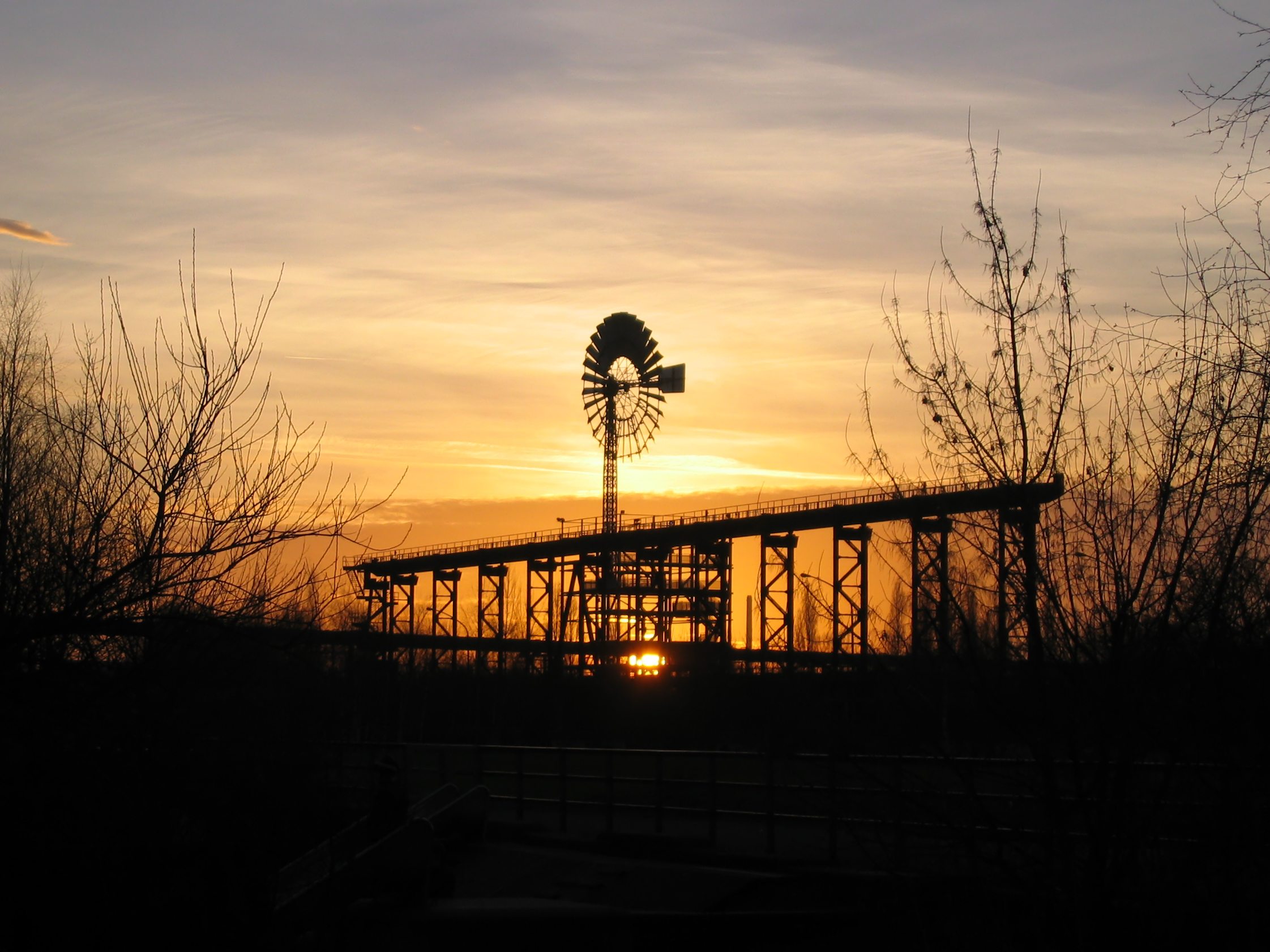 Landschaftspark Duisburg-Nord - Wind wheel in the setting sun